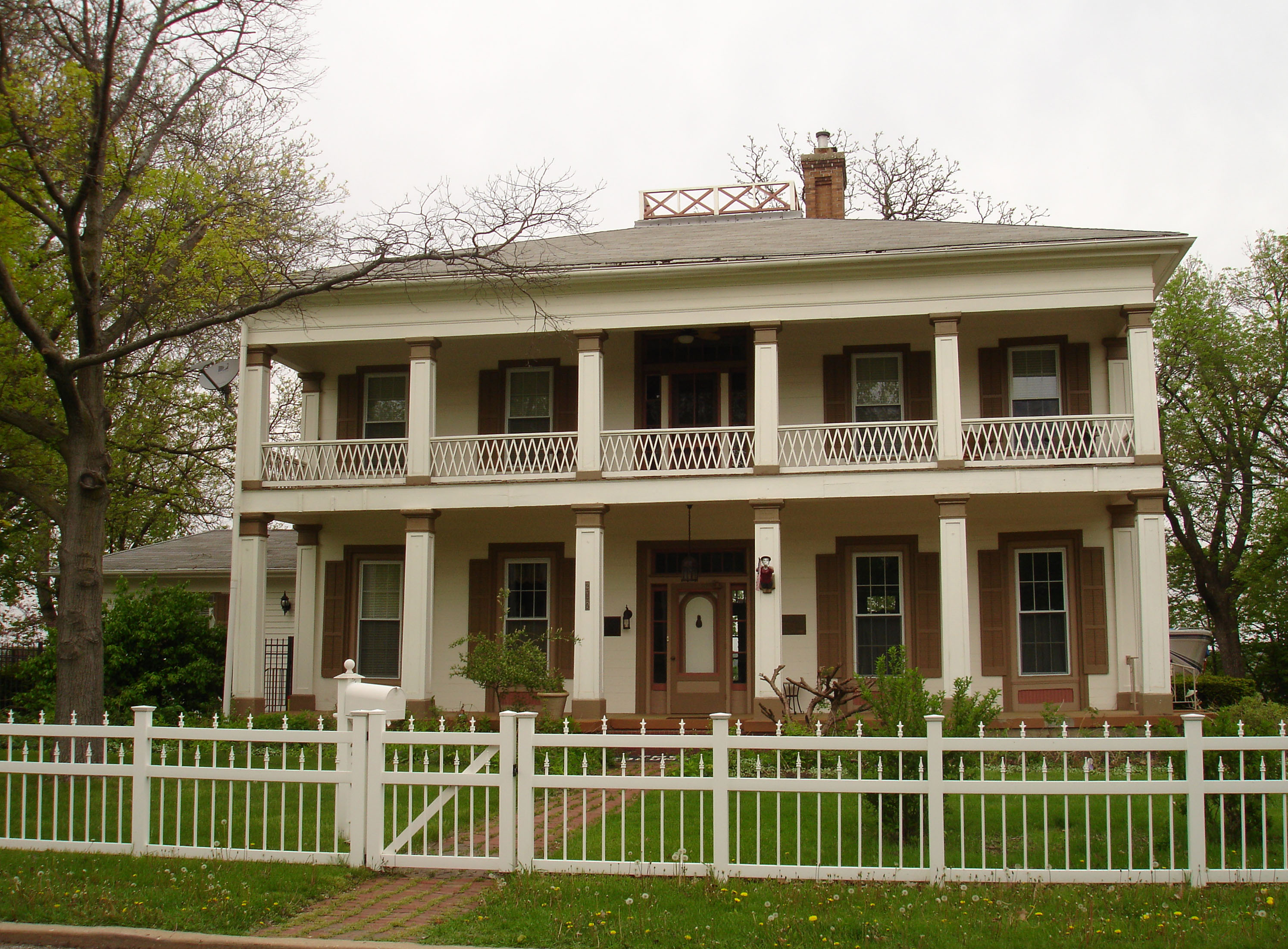 John Hossack House, Ottawa, Illinois USA. Listed on the U.S. National Register of Historic Places.